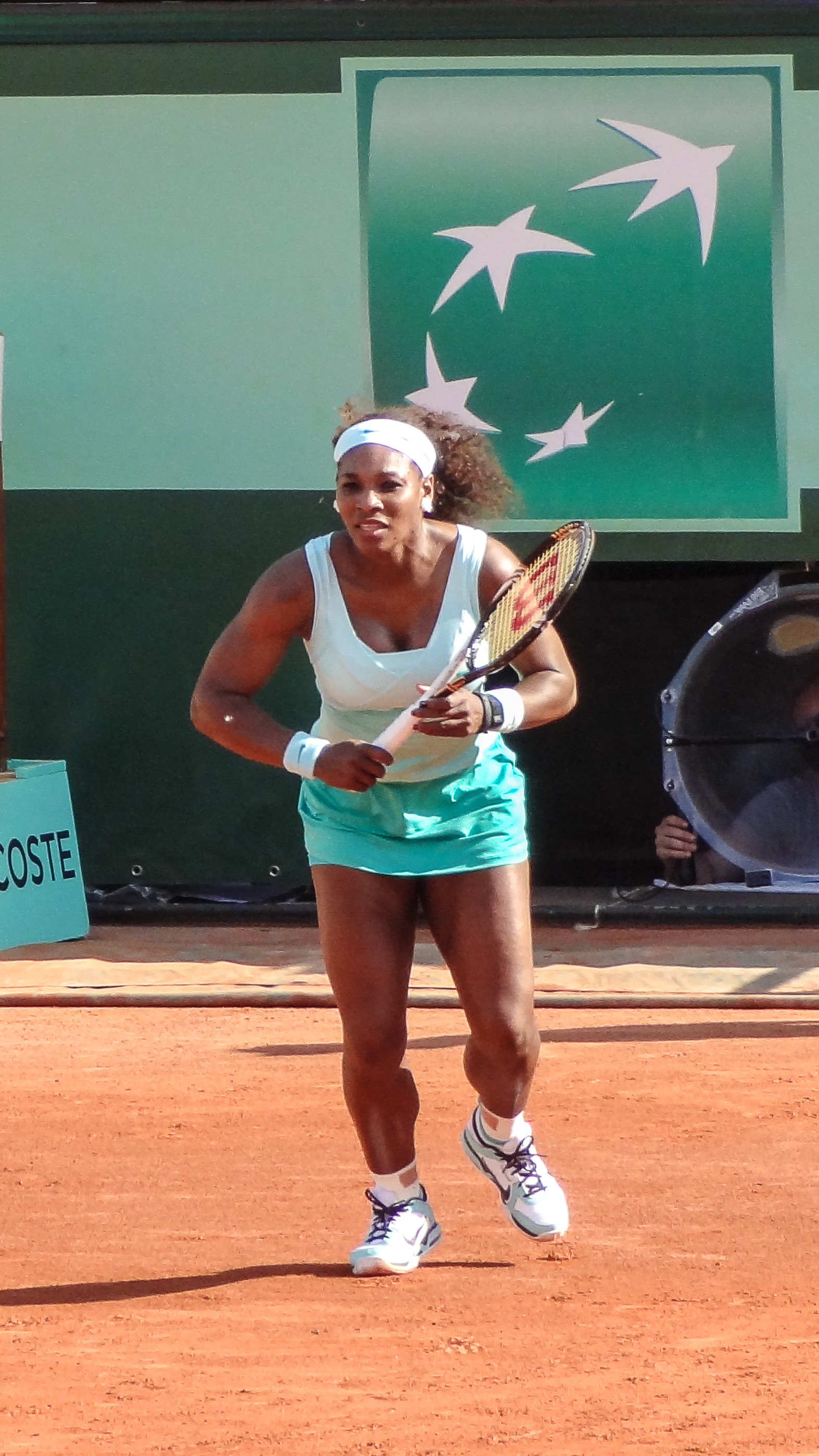 1er tour Roland Garros 2012 : Virginie Razzano (FRA) def. Serena Williams (USA)